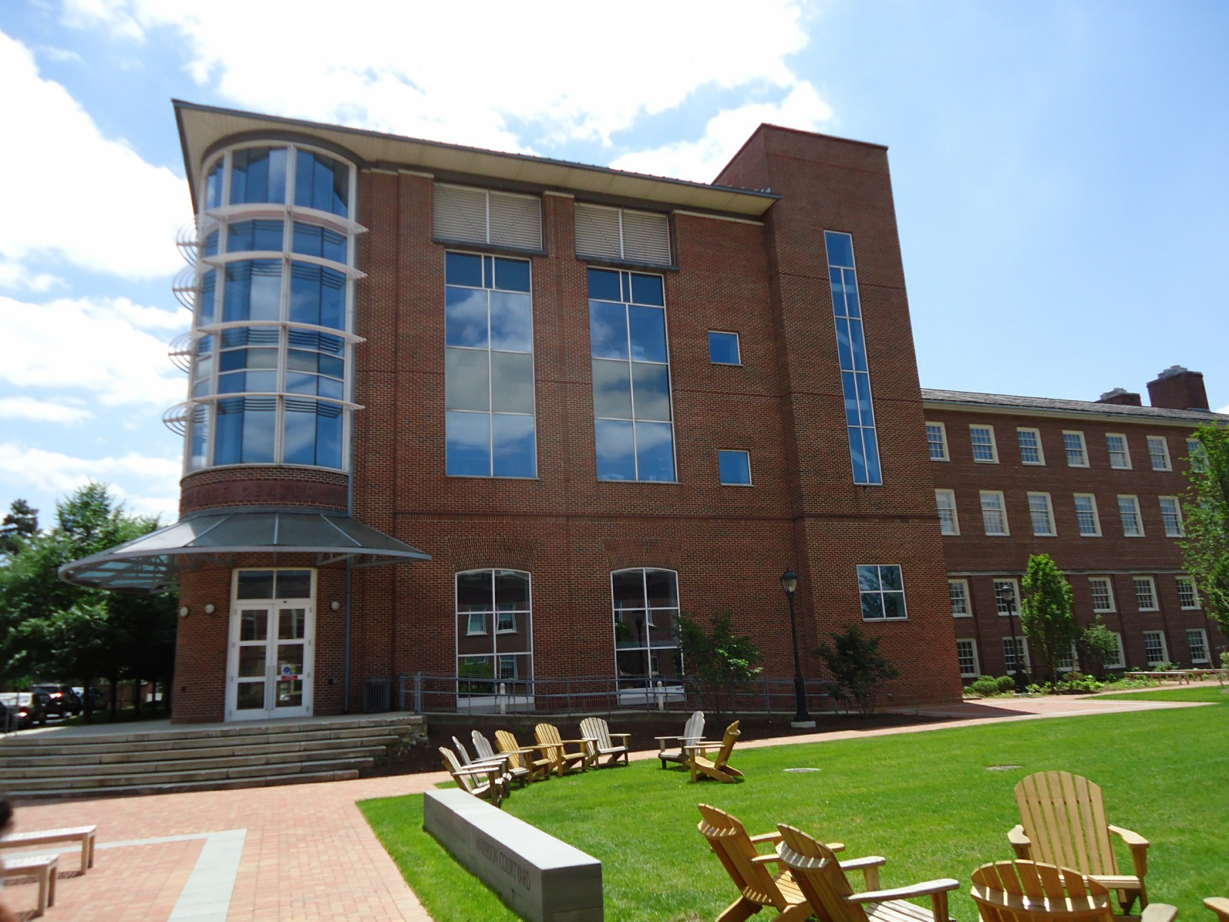 A photo from a campus tour of Lafayette College in Easton, Pennsylvania, on May 31, 2012 (correct date; 2011-06-01 is incorrect).